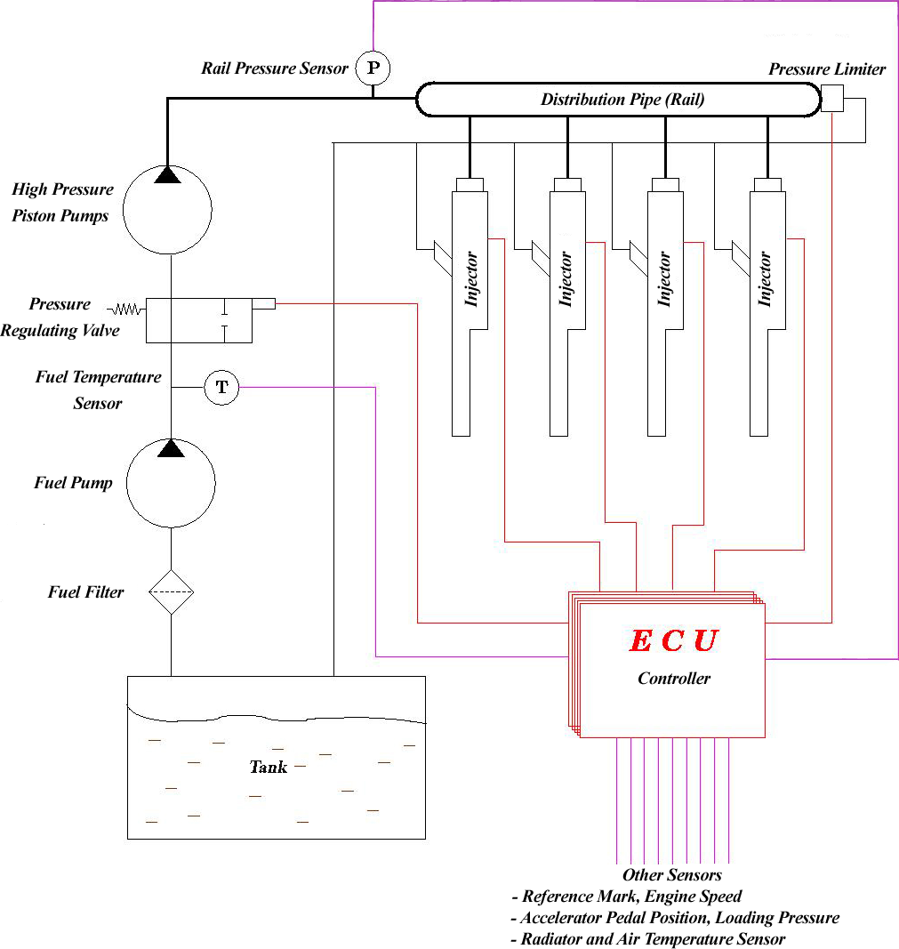 Diagram of a Common rail direct fuel injection system for Diesel engines.